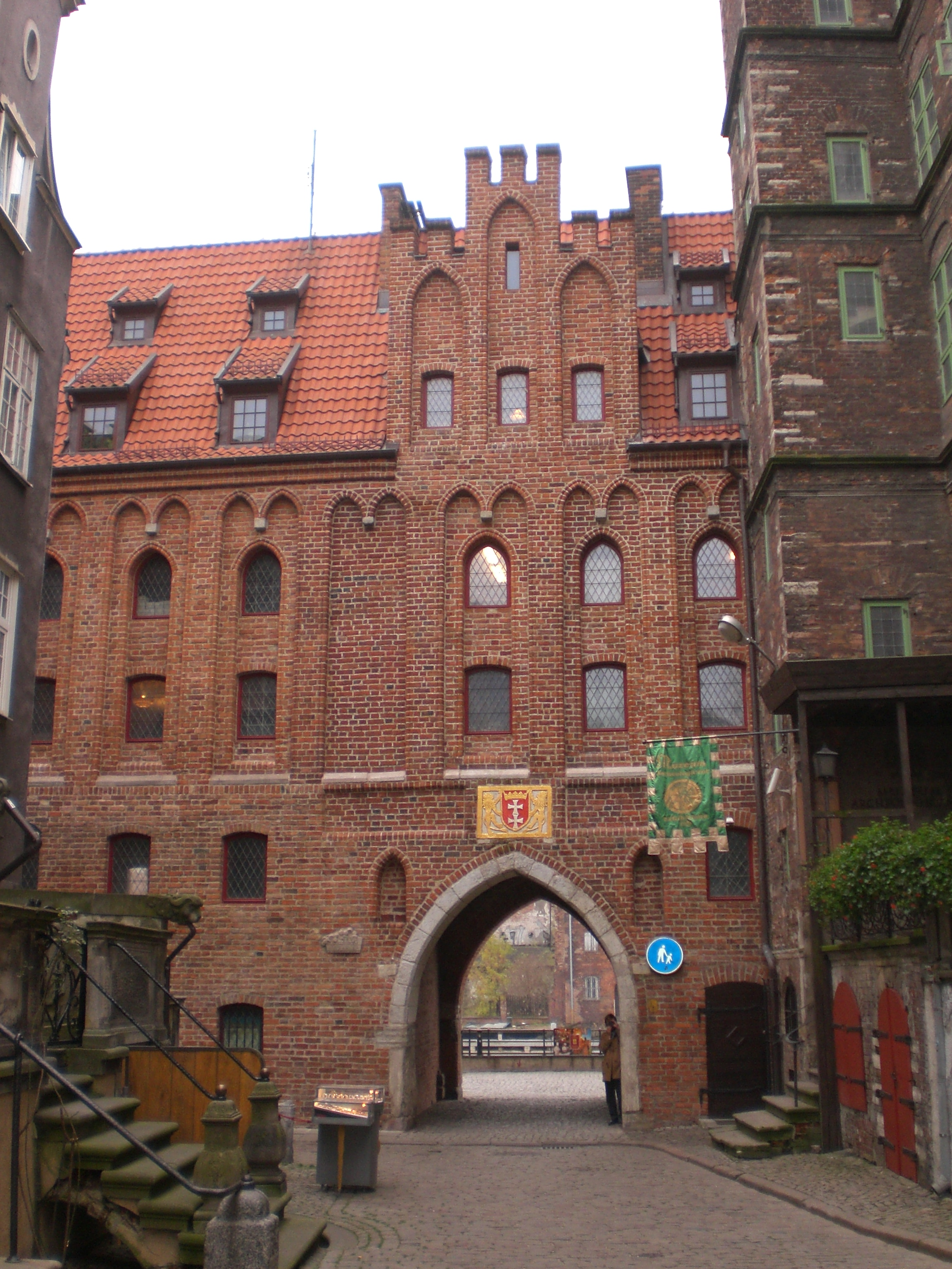 Mariacka Gate in the Main Town of Gdańsk